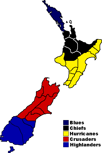 Territories of New Zealand Super Rugby teams